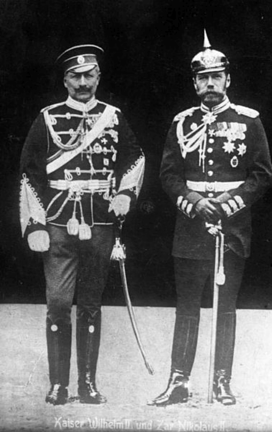 Emperor Wilhelm II of Germany (left) in Russian uniform, and Tsar Nicholas II of Russia (right) in Prussian uniform.